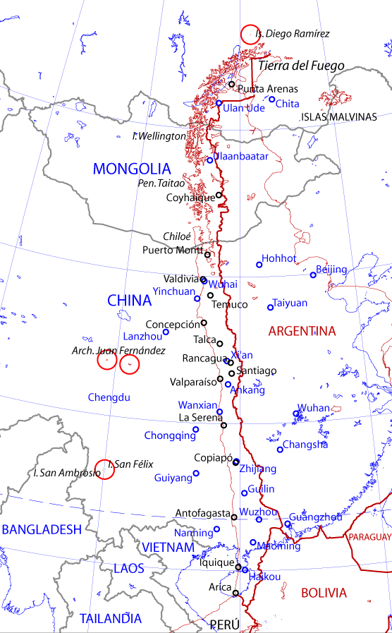 Antipodes of Chile (american area only)